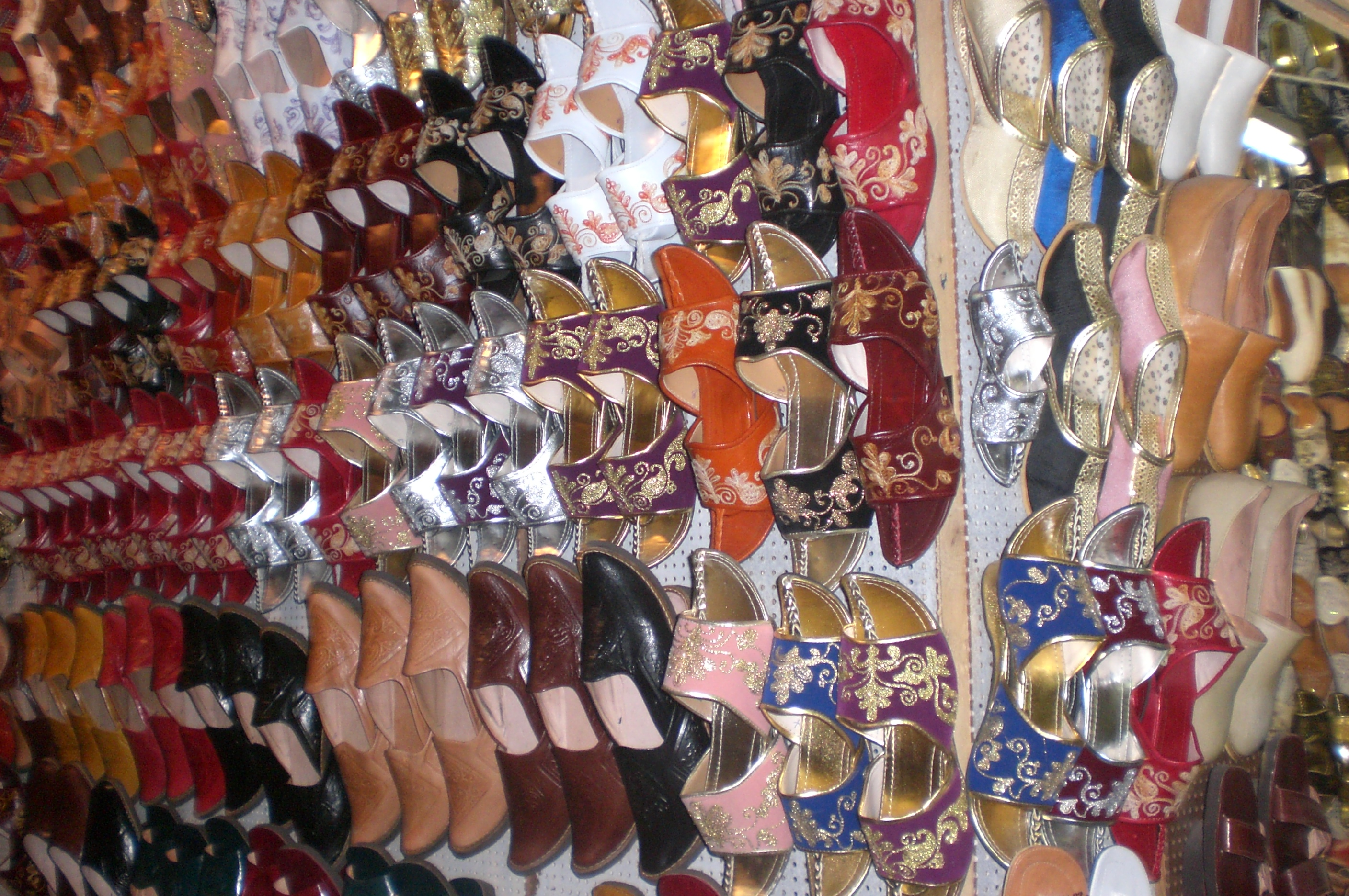 Traditional shoes in Suq of Belaghjiya-Tunis